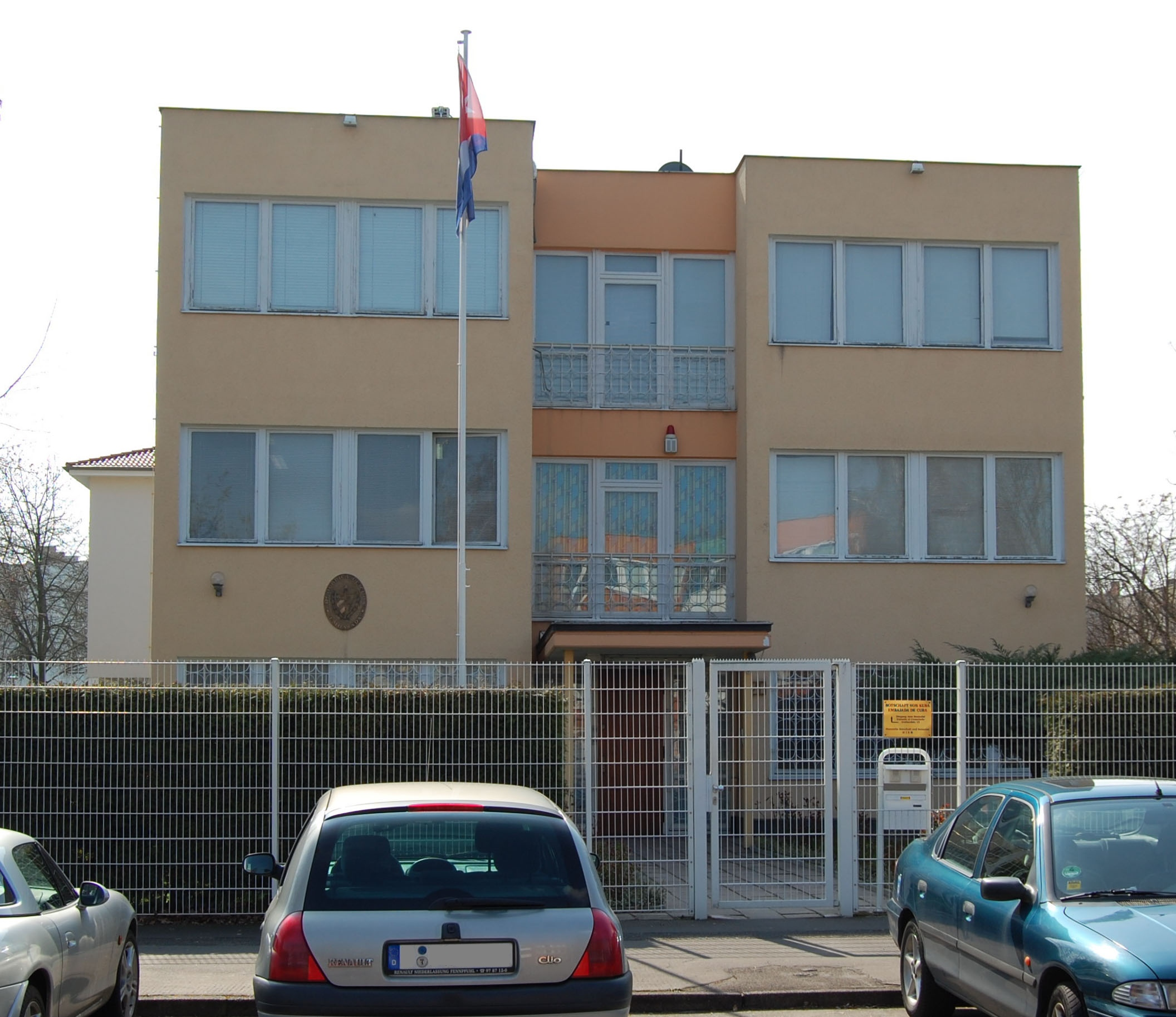 Embassy of Cuba in Berlin